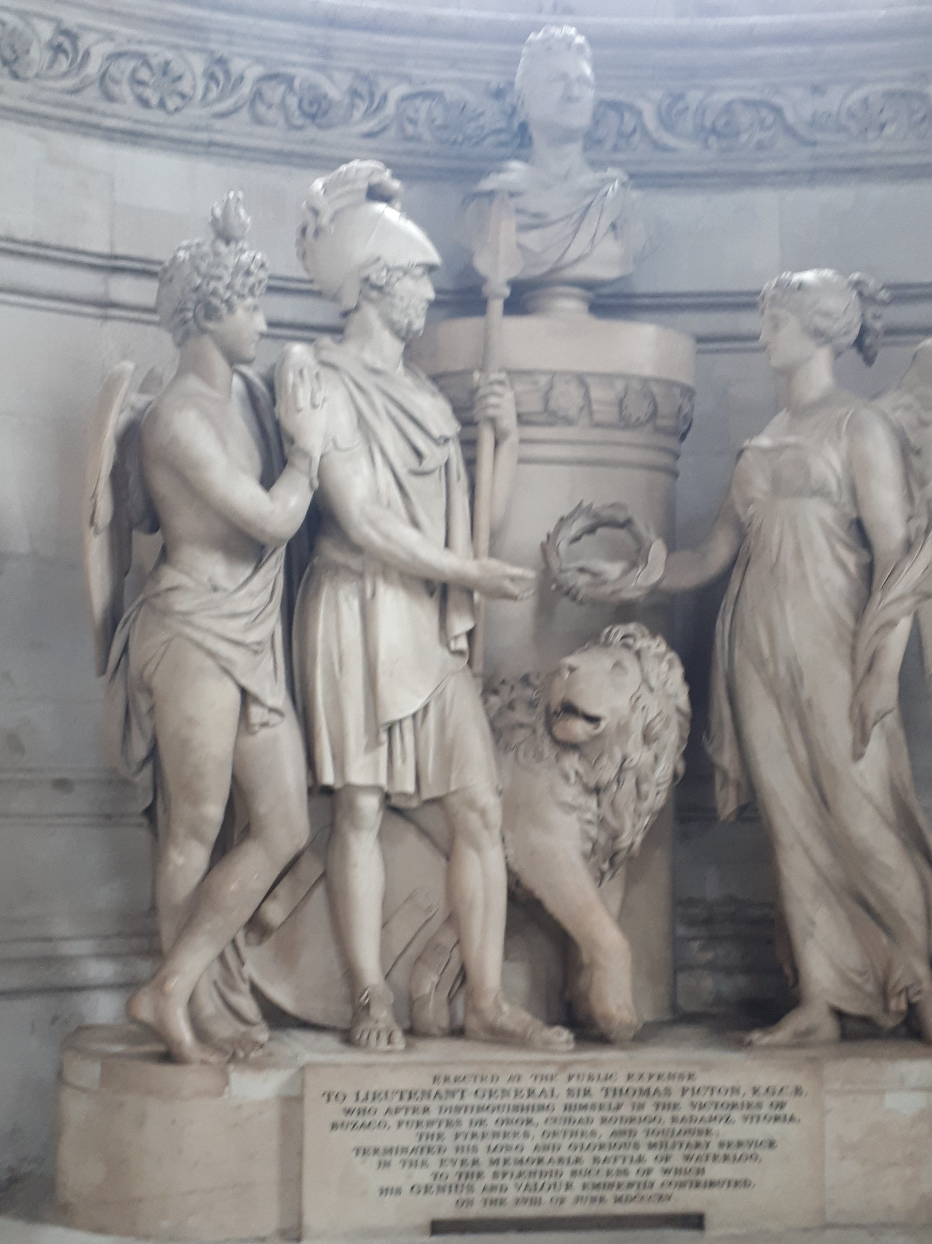 Memorial to Lieutenat General Thomas Picton, by Sebastian Gahagan (1773-1838), at St. Paul's Cathedral, London